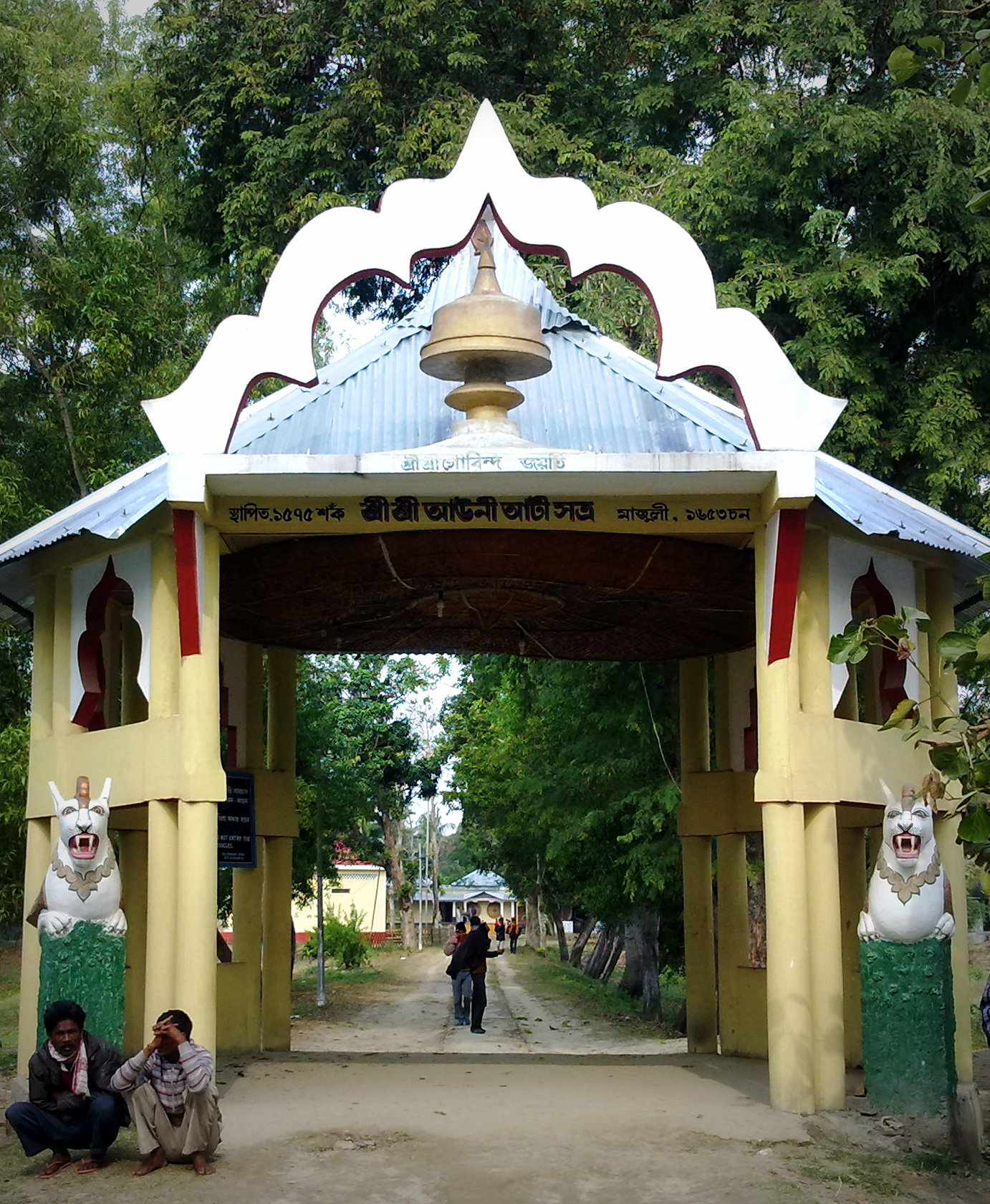 Gate of Aauniati satra